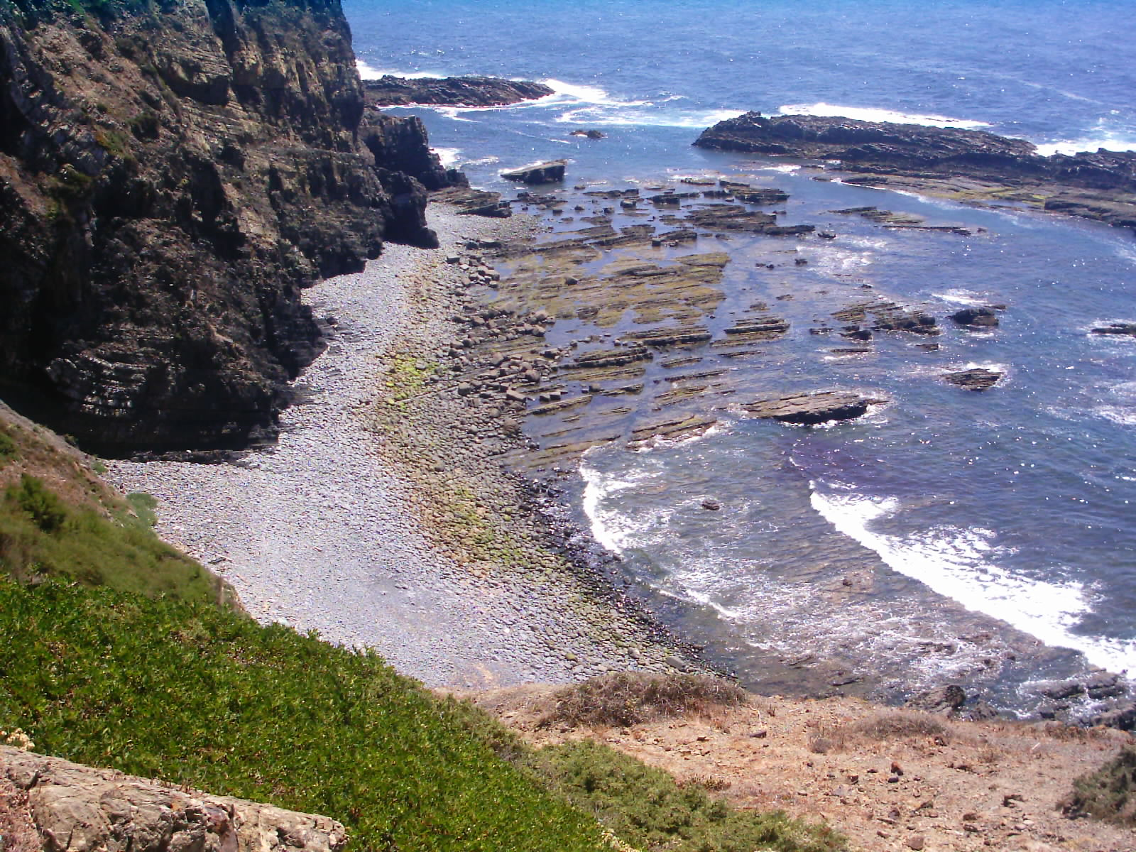 Coast near Vale da Telha, Aljezur, Portugal.